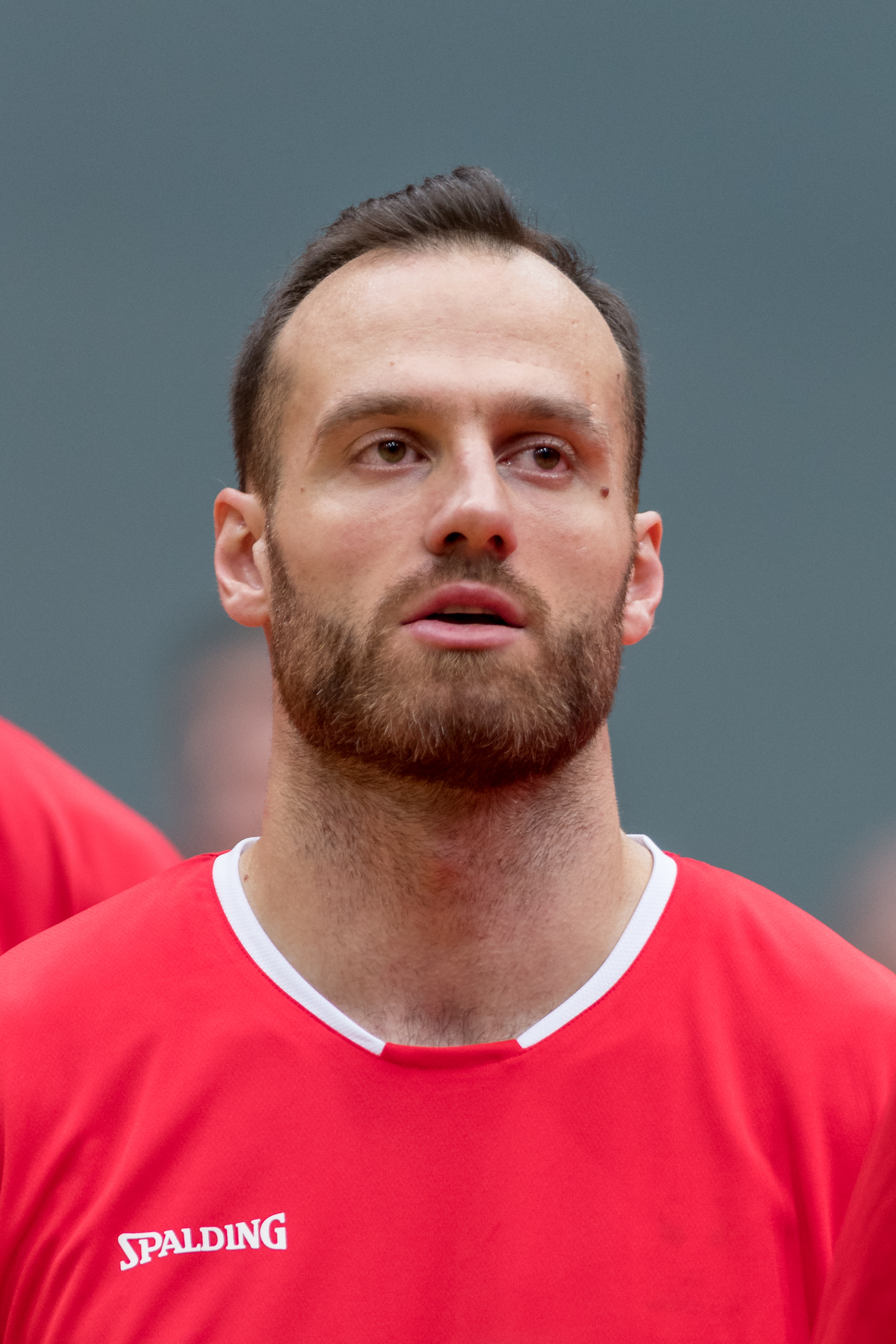 FIBA World Championship Qualification 2019 Austria vs. Germany 2017-11-27 Multiversum Schwechat. Picture shows Enis Murati (AUT)